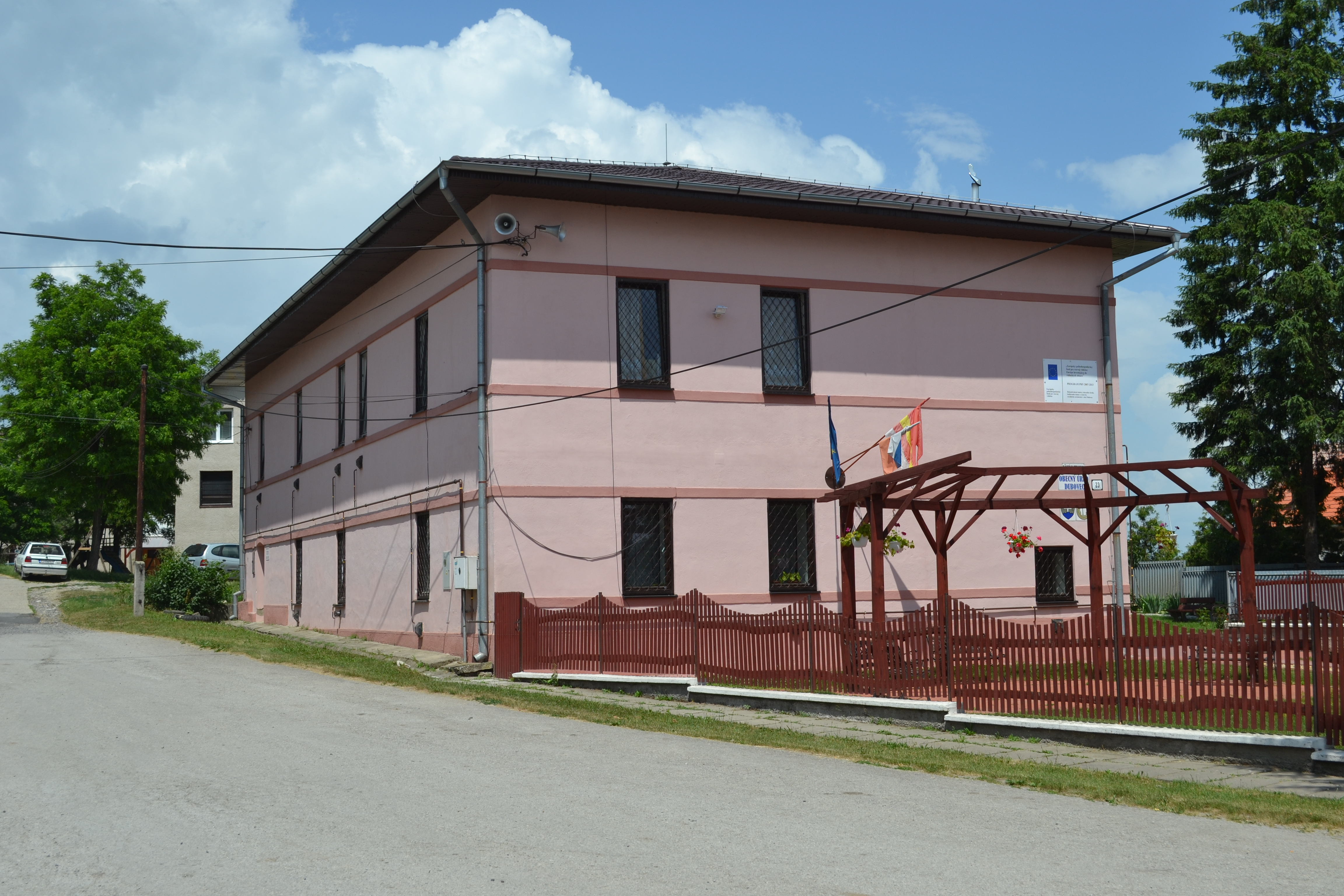 Municipal Office in the village DubovecSlovenčina: Obecný úrad v Dubovci